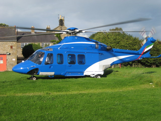 ELWOOD H.L.S. ( HELIPORT) BARRASFORD A.B.139 Just Visiting